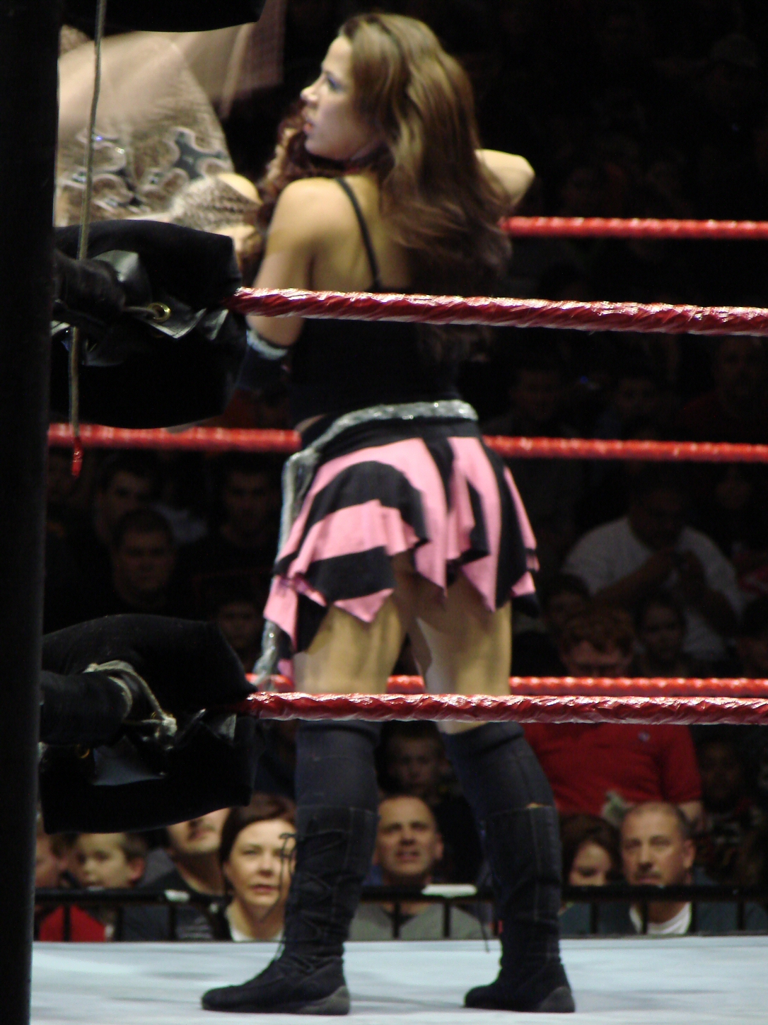 Mickie James at a WWE Raw live event. Valparaiso University, Valparaiso, IN, March 18en:2007. Taken by me.